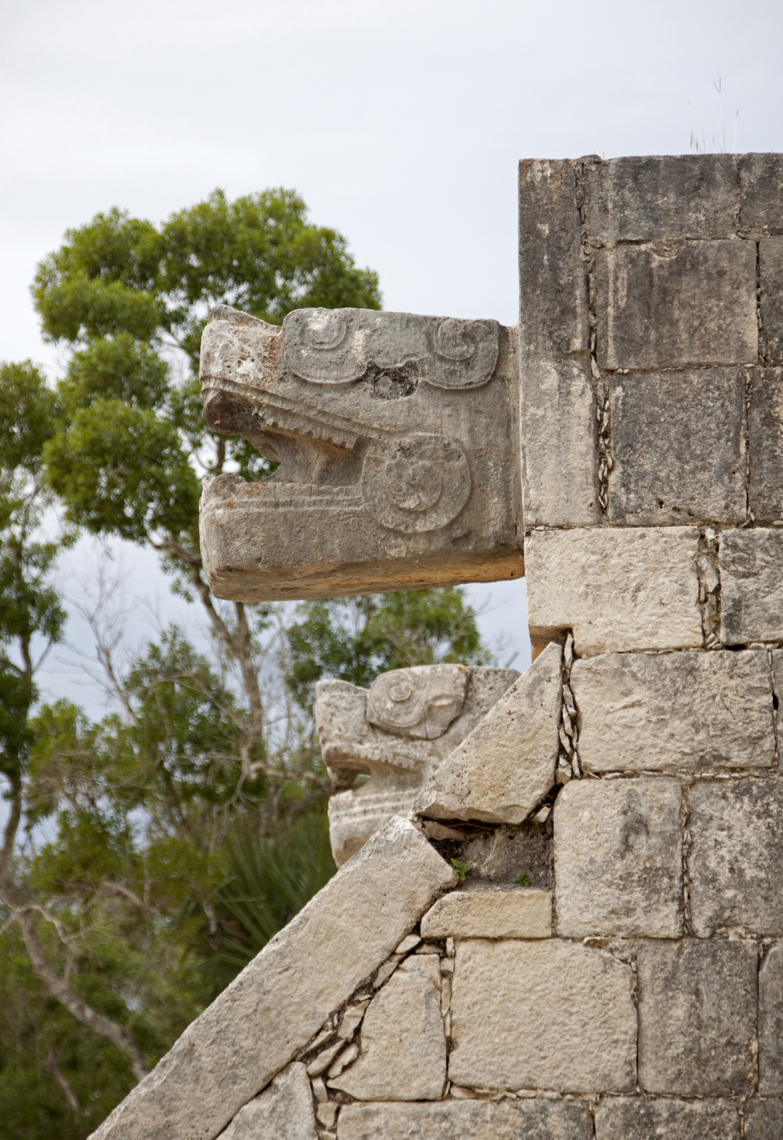 Jaguar carving